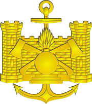 Engineer troops branch insignia of Ukraine